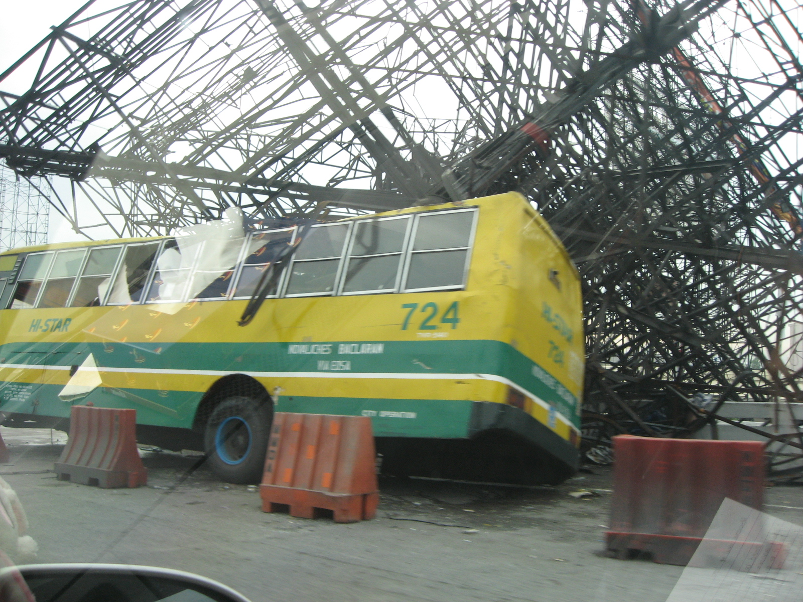 During Typhoon Xangsane, which passed almost directly over Metro Manila, many billboards collapsed, some crushing vehicles. This photograph depicts a bus crushed by a billboard structure along EDSA at the Magallanes interchange in Makati City.